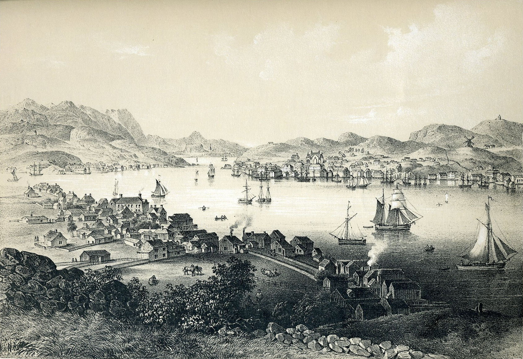 Pictures from the Work "Norge fremstillet i Tegninger" 1848 by Chr. Tønsberg. The picture depicts Kristiansund, Møre og Romsdal county, Norway.